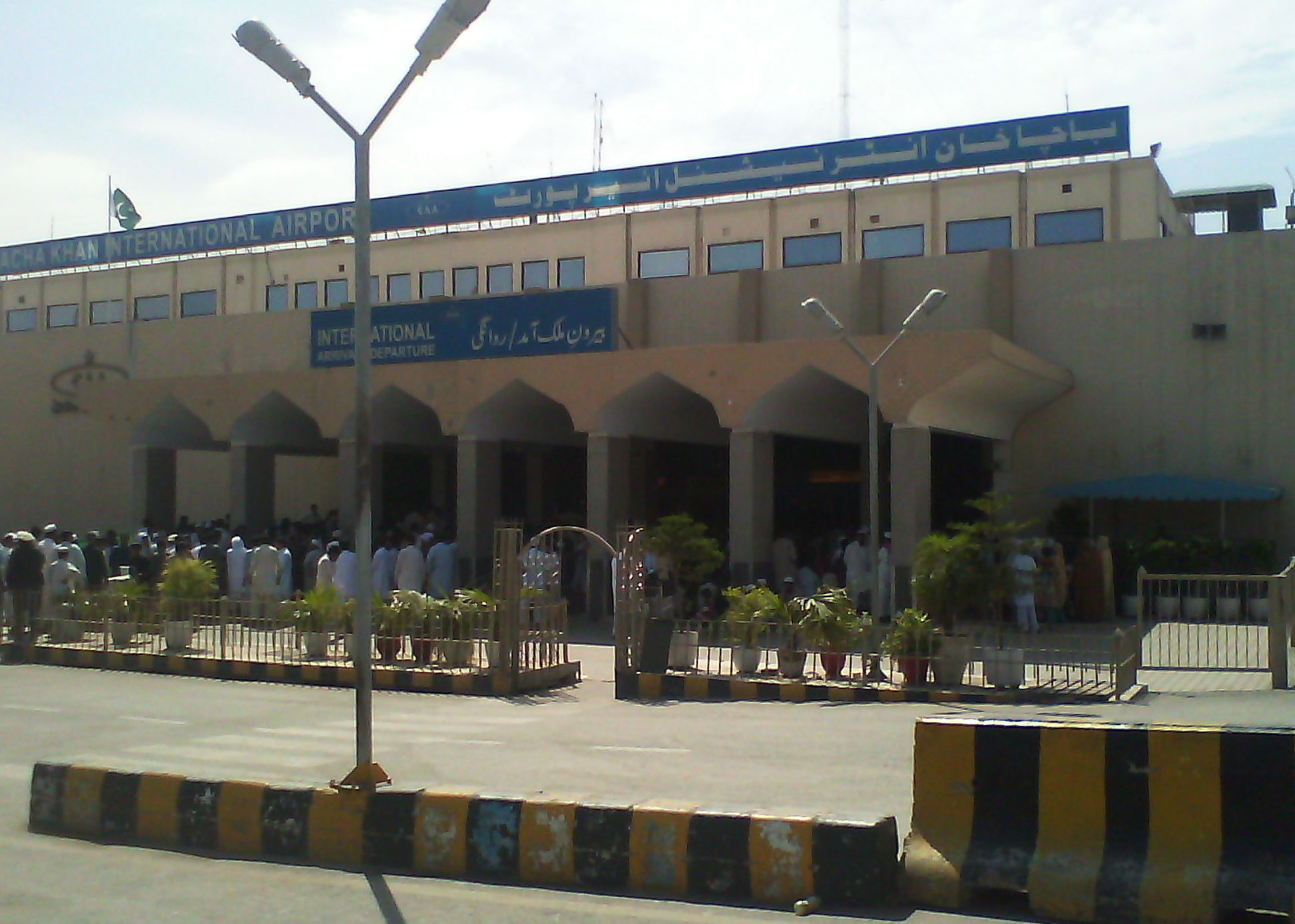 Peshawar Airport, Pakistan